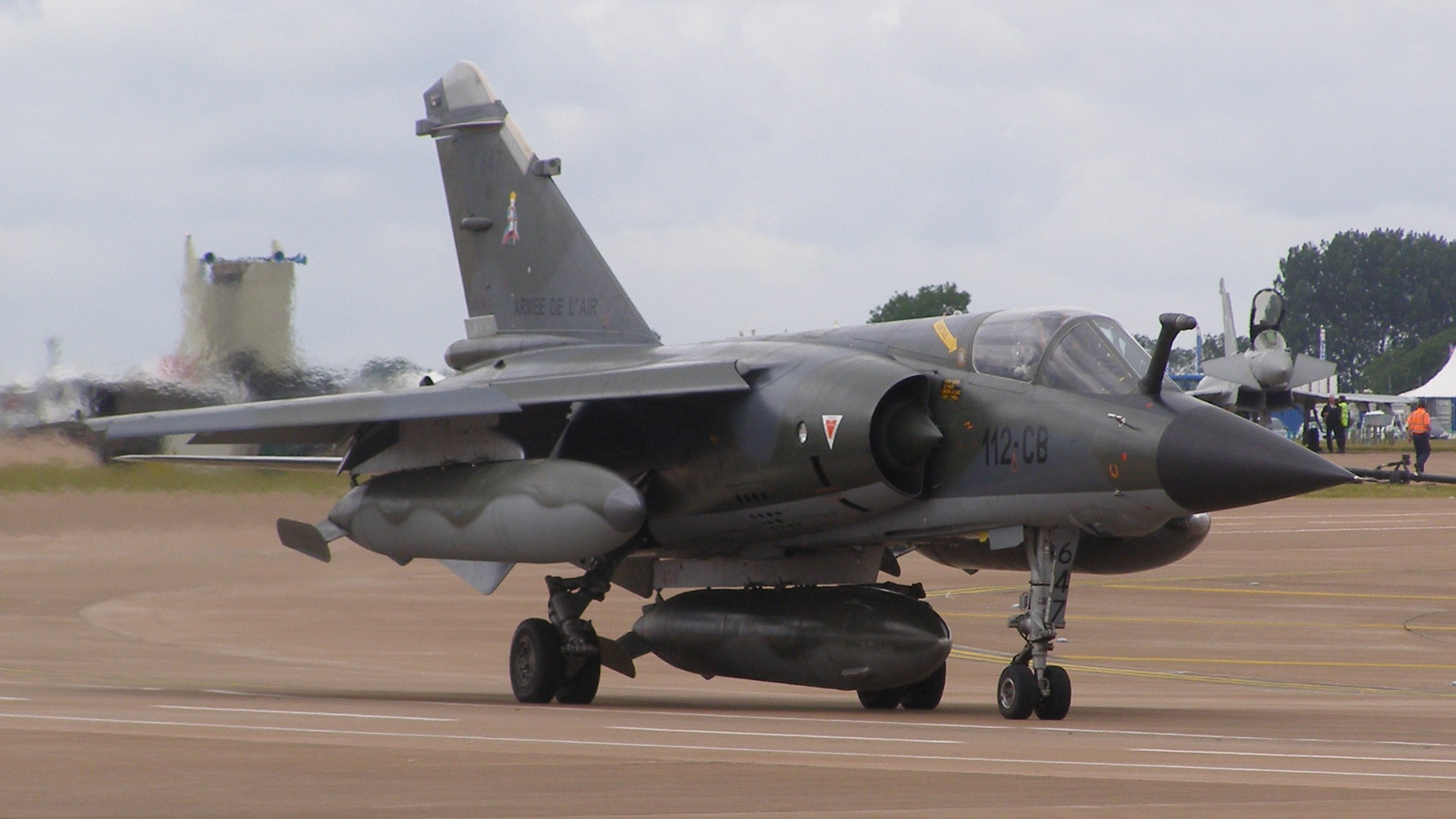 Dassault Mirage F1CR serial number 647 of the French Air Force (ER 01.033) at the Royal International Air Tattoo 2009 at RAF Fairford, England